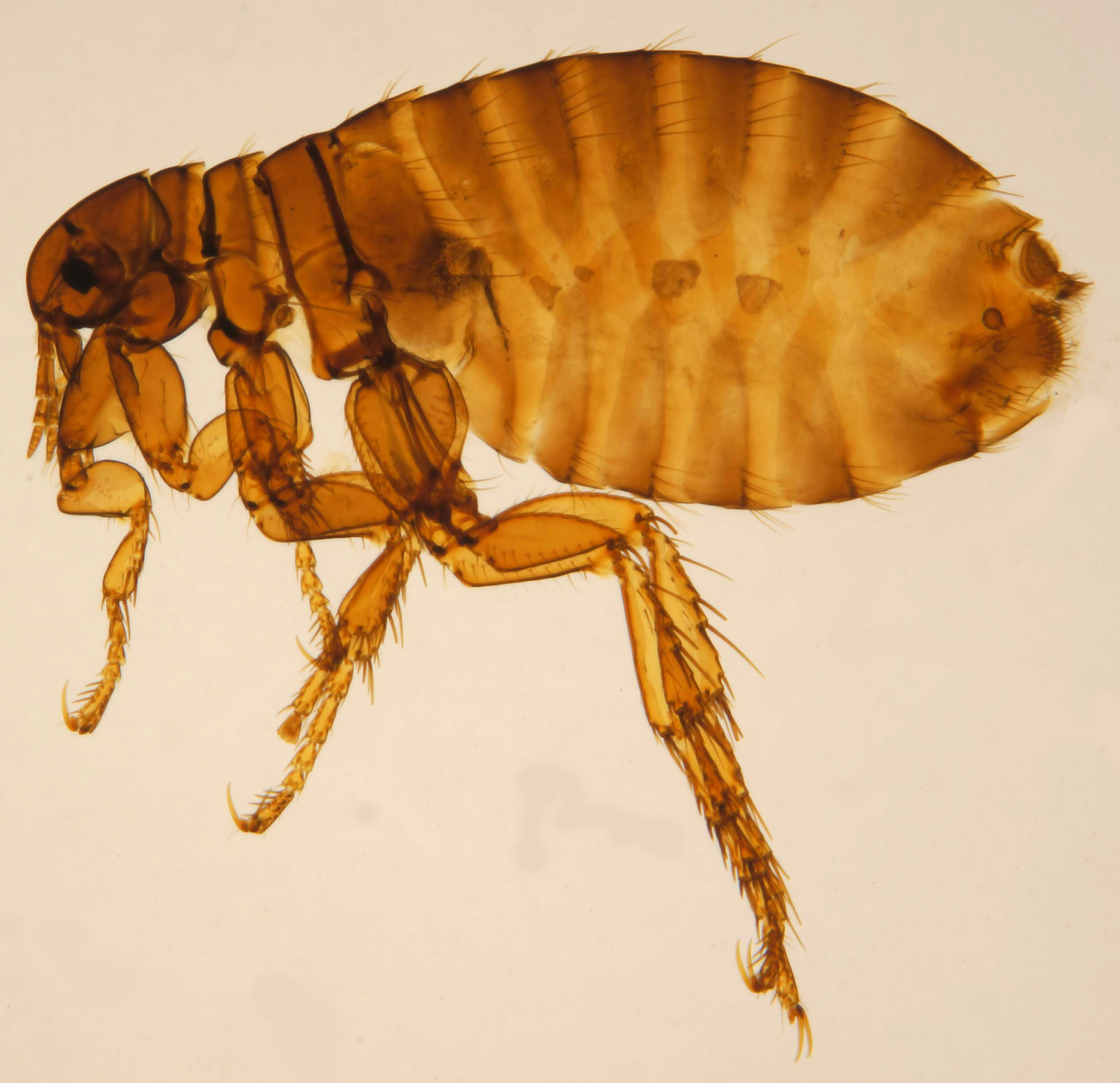 Pulex irritans, female, stored in ZSM collection